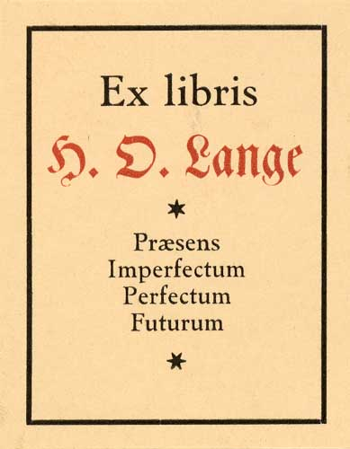 Overbibliotekar H. O. Langes exlibris